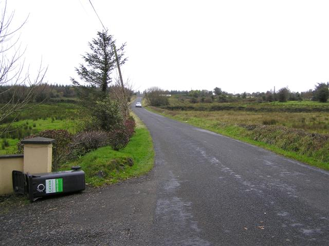 Road at Grubrimmaddera Heading south-west